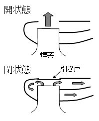 Figure describing mechanism of smoke collection part of steam locomotives, which is equipped on a funnel to guide exhaust fume.